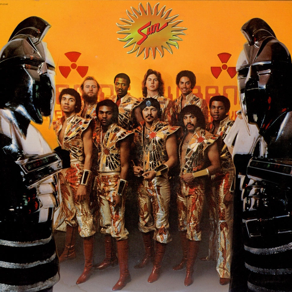 Sun Band Photo by owner